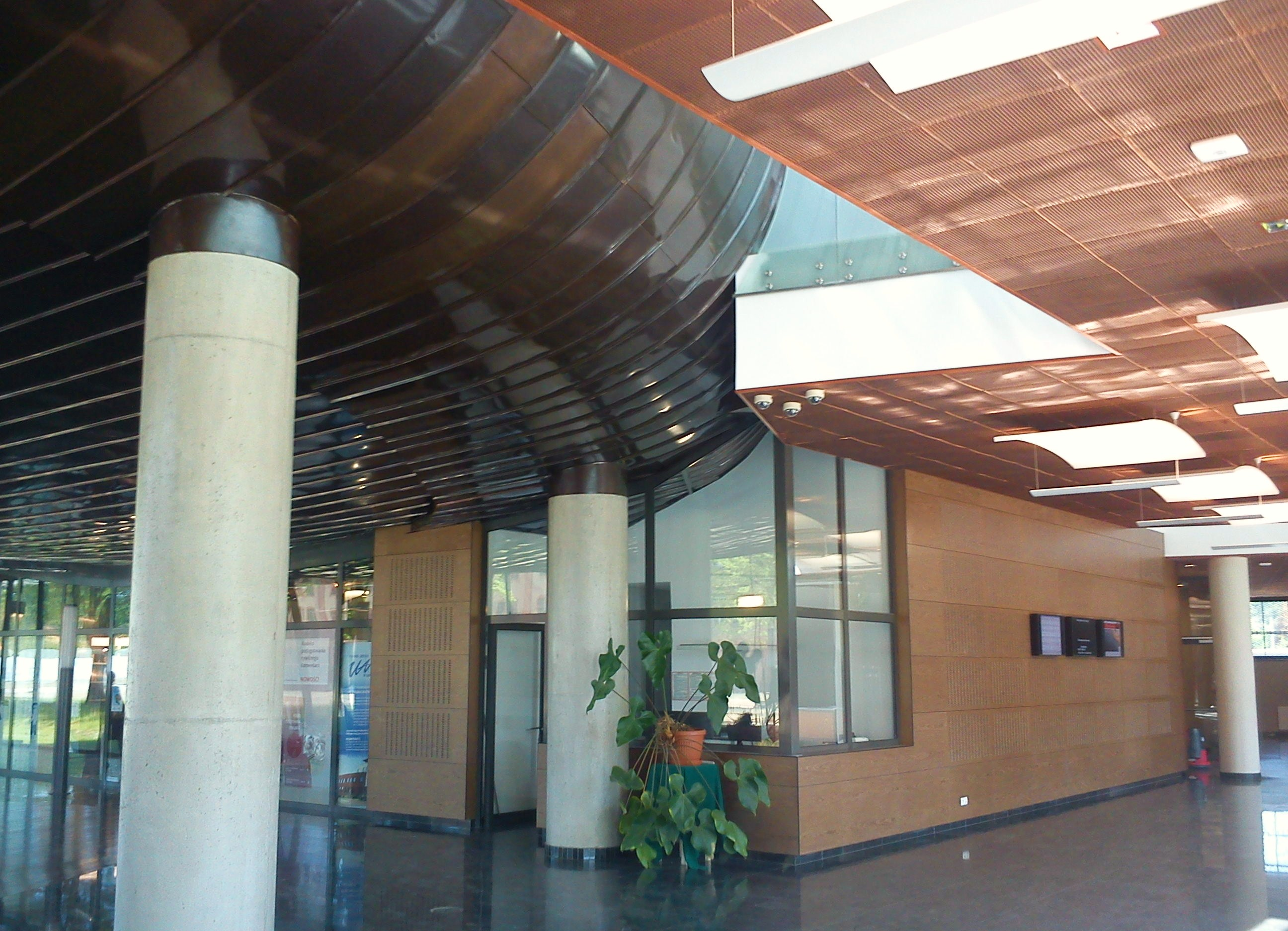 COLLEGIUM IURIDICUM NOVUM, POZNAN.